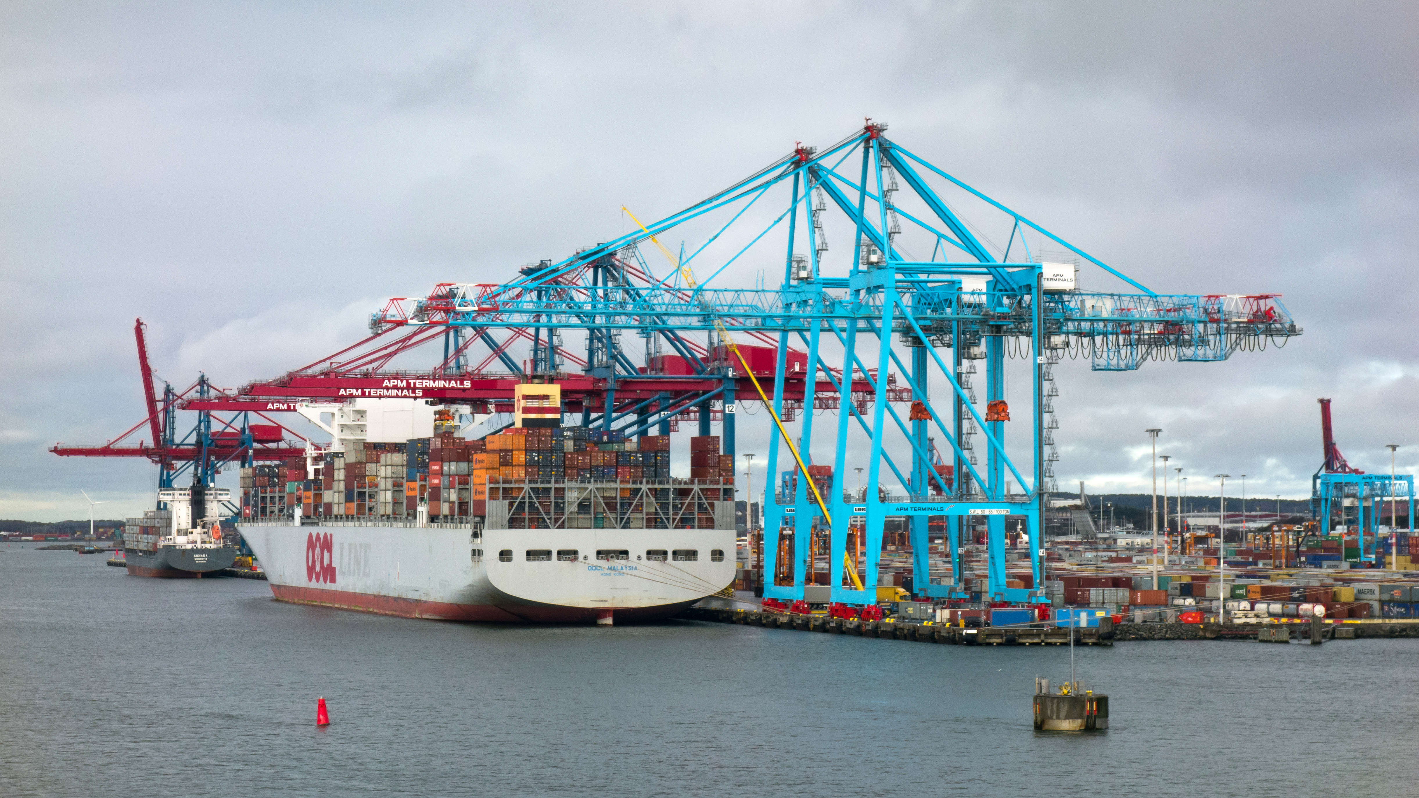 Container ship OOCL Malaysia, IMO 9627980, at Skandiahamnen, Gothenburg as seen from the upper deck of Stena Danica.